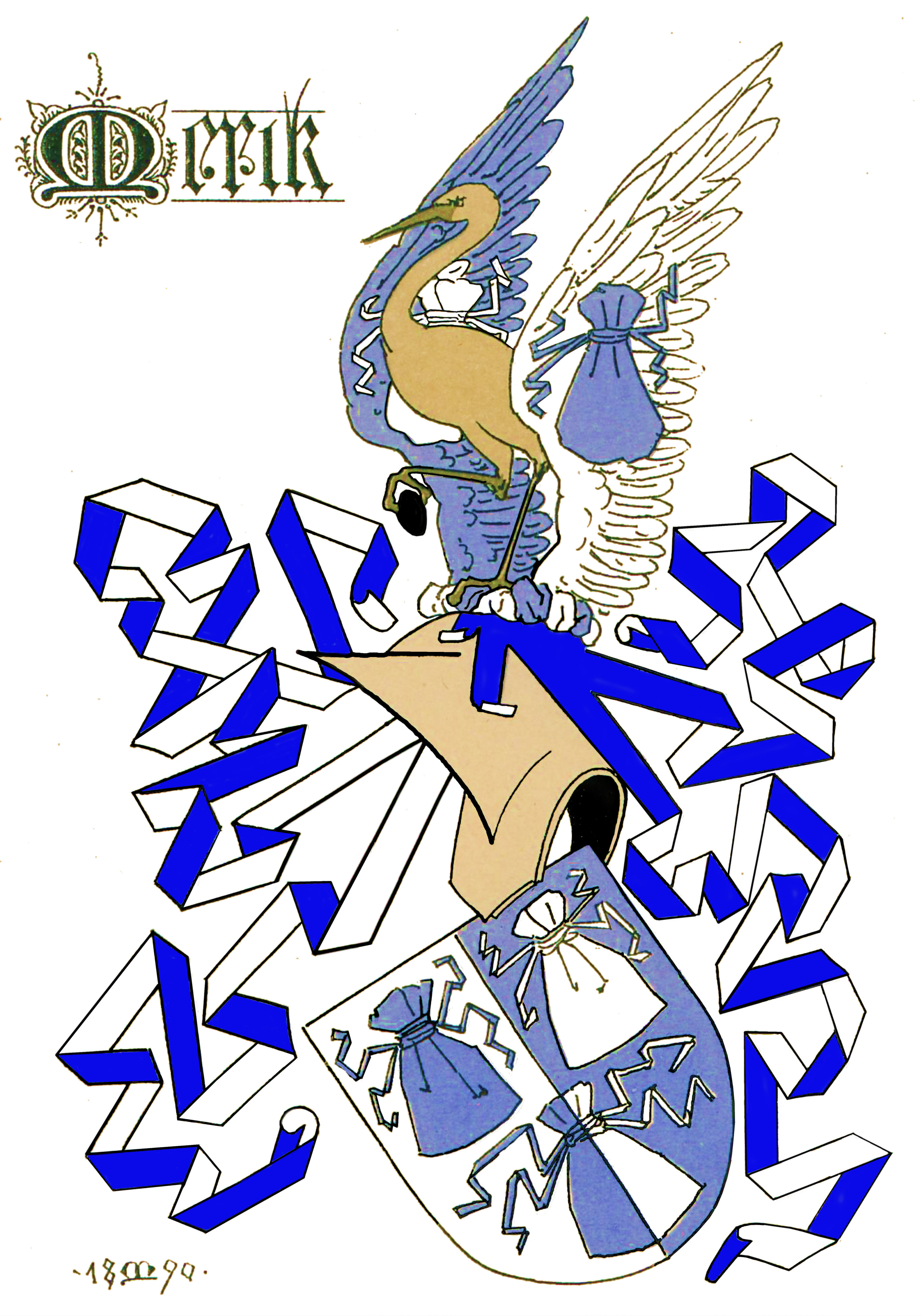 Coats of arms of the Merck family (Hamburg)